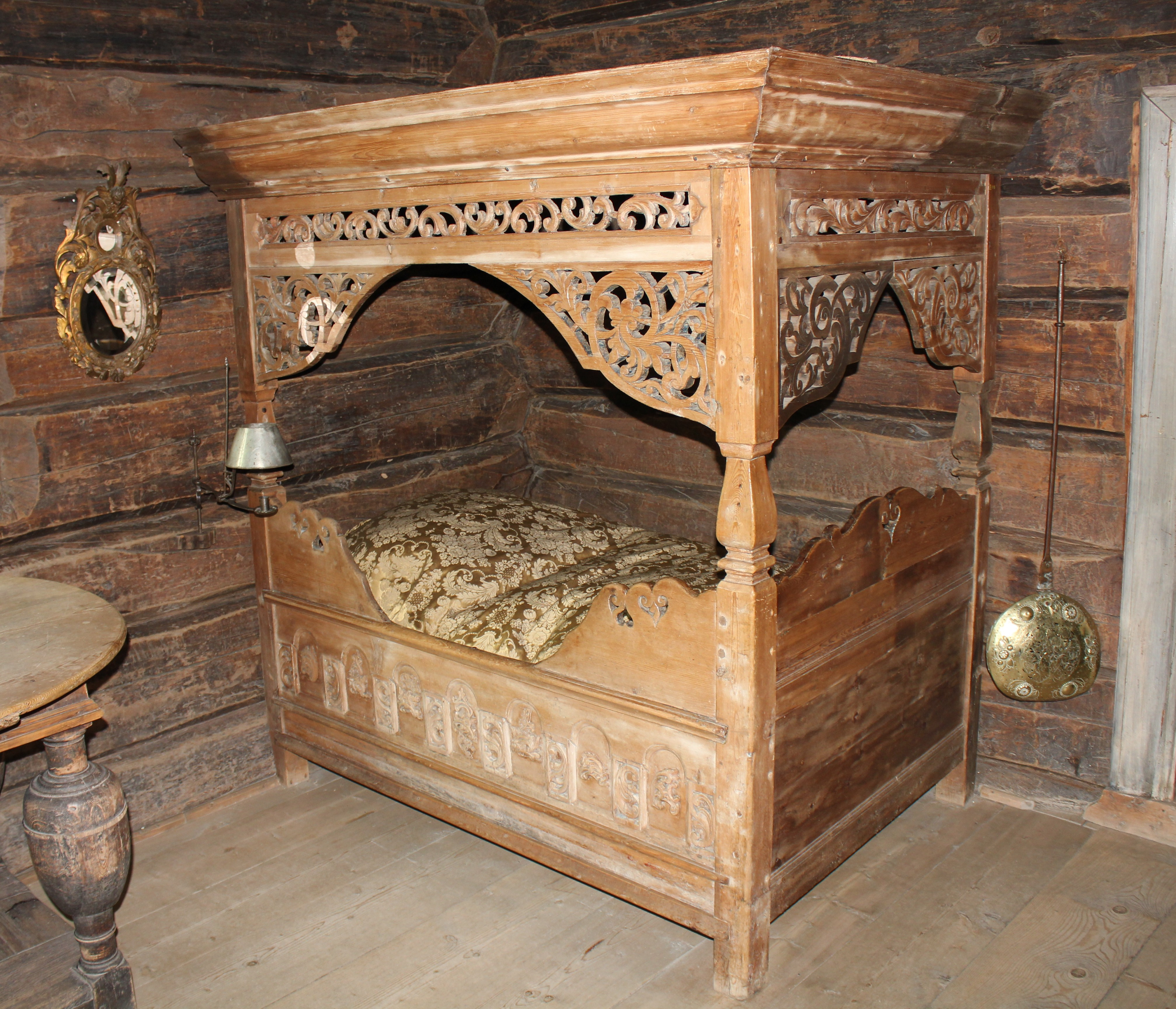 Old Norwegian bed.